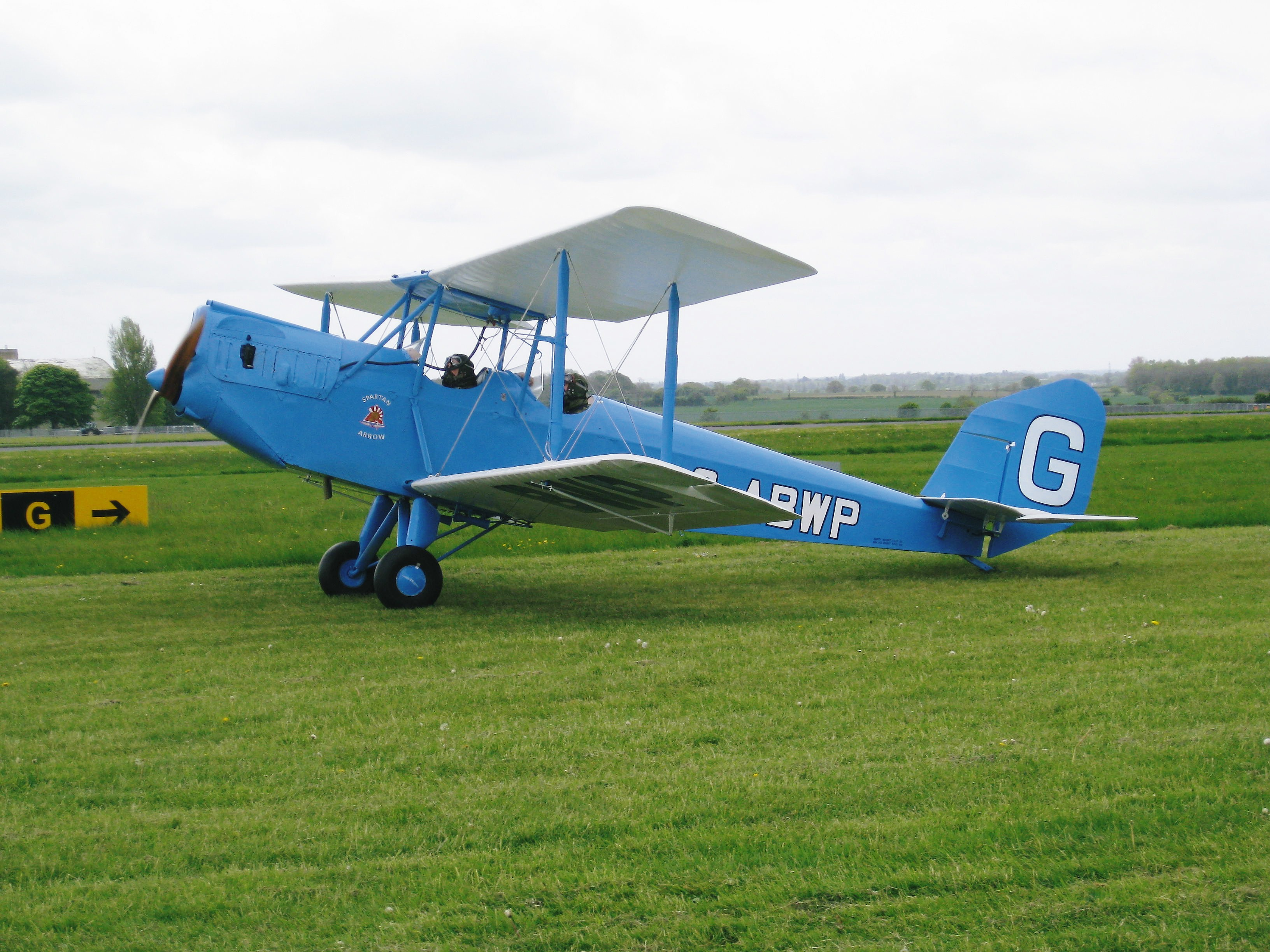 Spatan Arrow 1 G-ABWP built in 1932 at the Kemble GVFWE 9 May 2009R